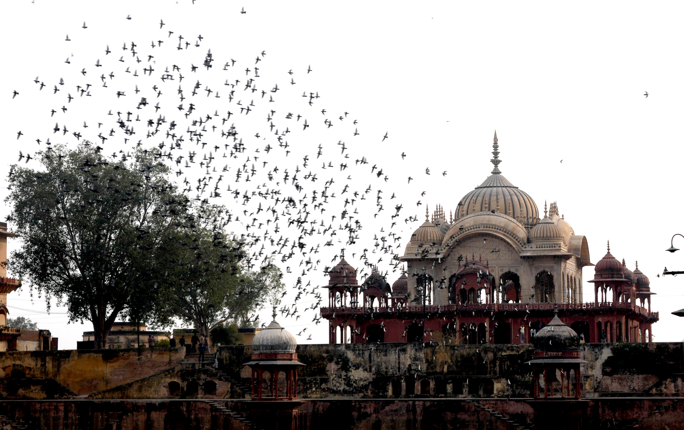 Cenotaph of Musi Maharani, S-RJ-19